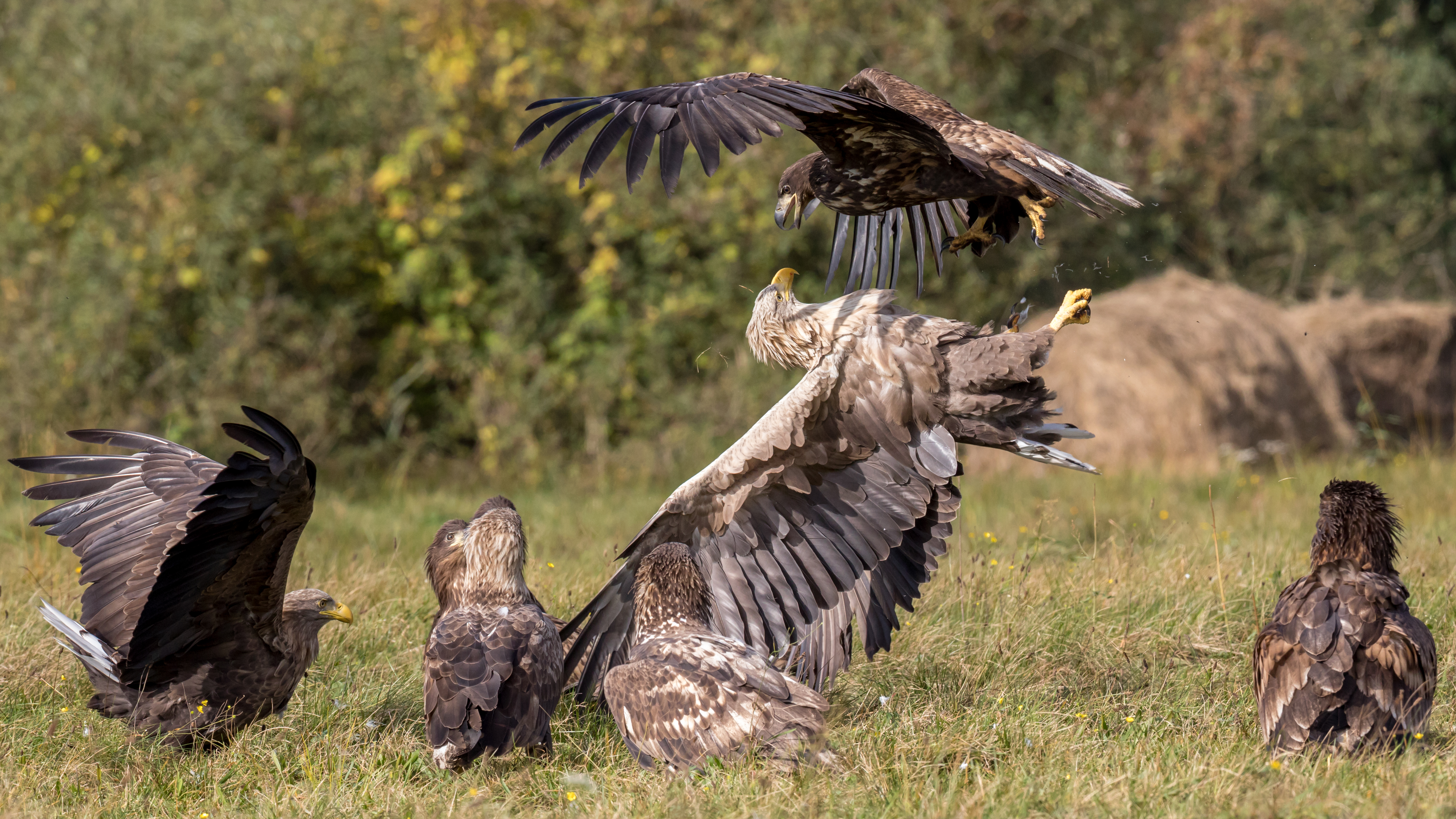 In the Gostynin-Wloclawek nature reserve (Poland) several white-tailed eagles (Haliaeetus albicilla) overwinter; this is a natural habitat for these gigantic birds. The number of eagles in this habitat is high enough to observe occasional aggressive wranglings over some prey. The fights may become acrobatic at times. Here a juvenile bird (top) is being chased away by an adult bird (yellow beak, below). Photo taken in October 2017.